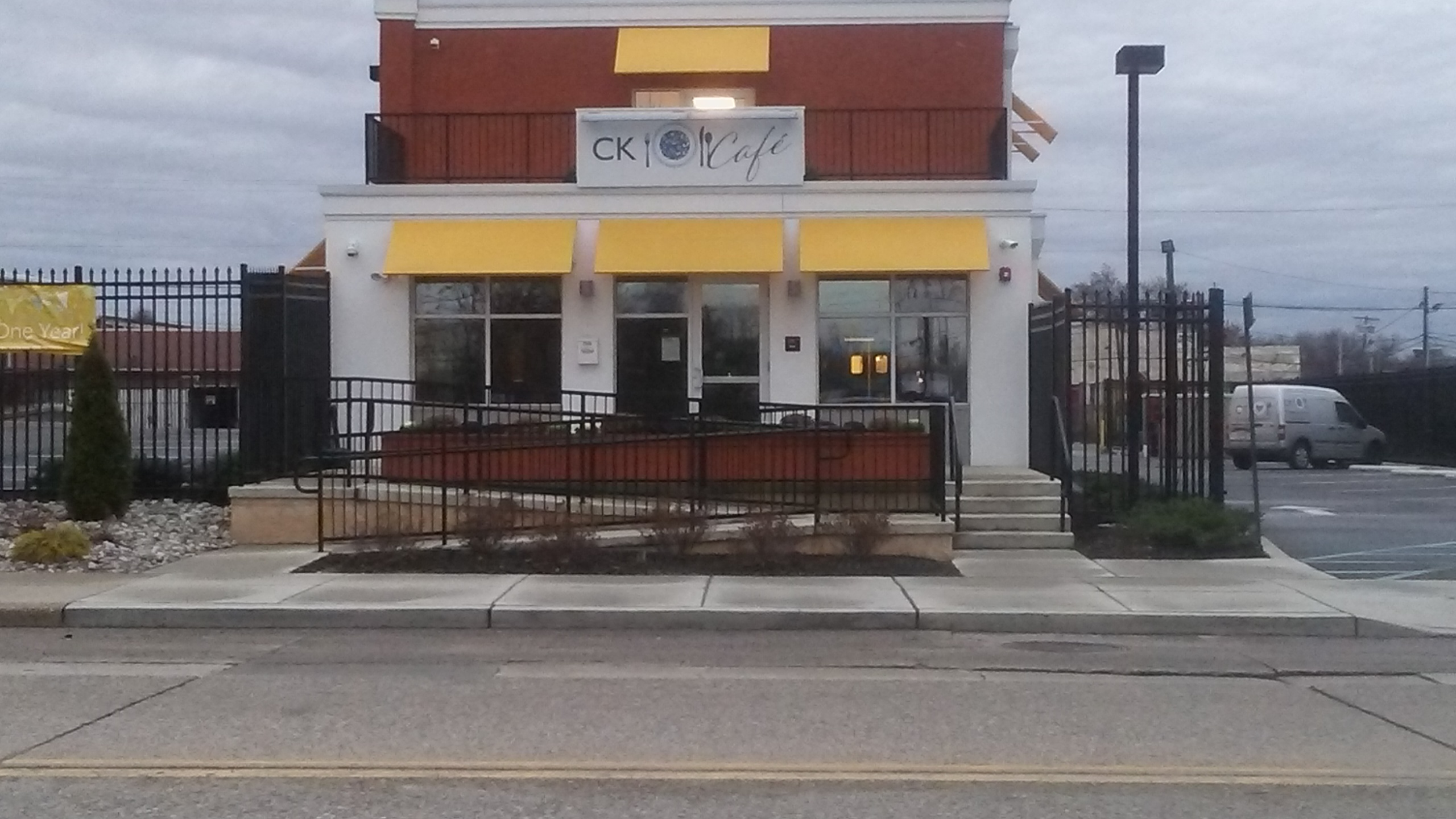 A Subsidiary of the Cathedral Kitchens Culinary Arts program